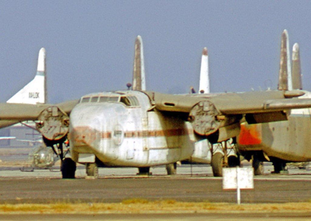 Fairchild C-82A Packet N53228 used in the 1965 Robert Aldrich film, "The Flight of the Phoenix", at Long Beach Airport, Long Beach, California in 1970. It is painted in the colors of the fictional "Arabco Oil Company".